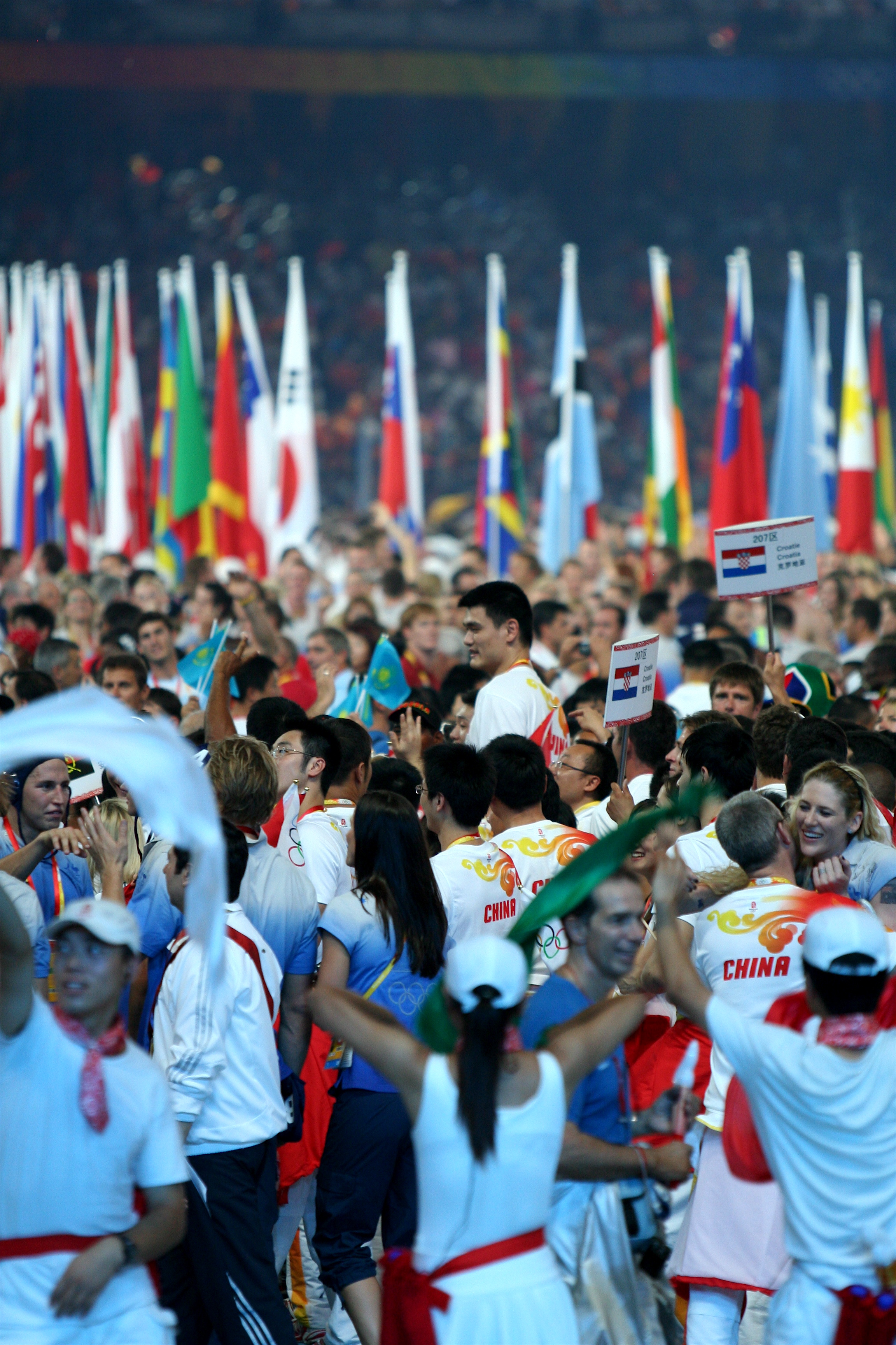 Beijing Olympics: Closing Ceremony, spotting Yao Ming in the Crowd